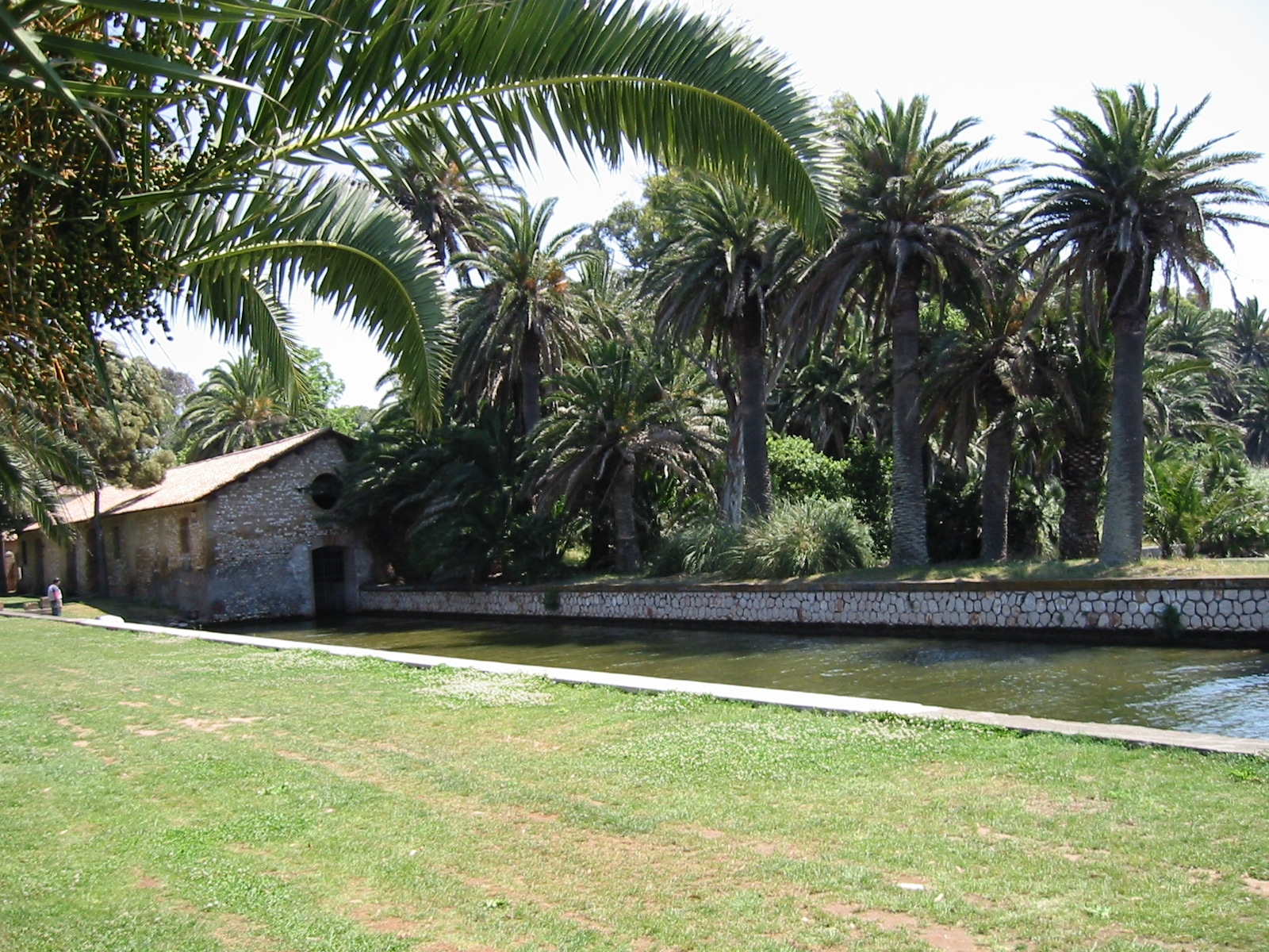 Exotic vegetation in the Giardino Botanico at the shores of Lago Fogliano near Latina in Italy